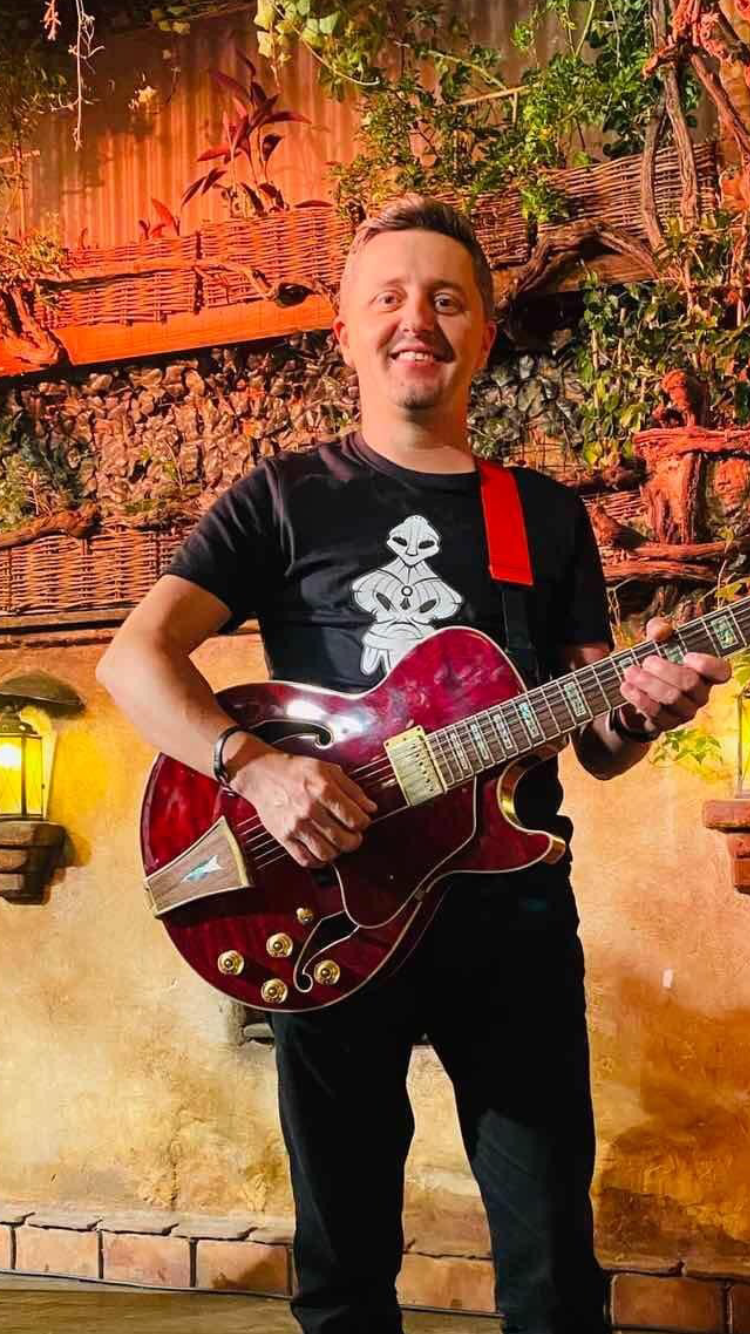 Defrim Kocinaj